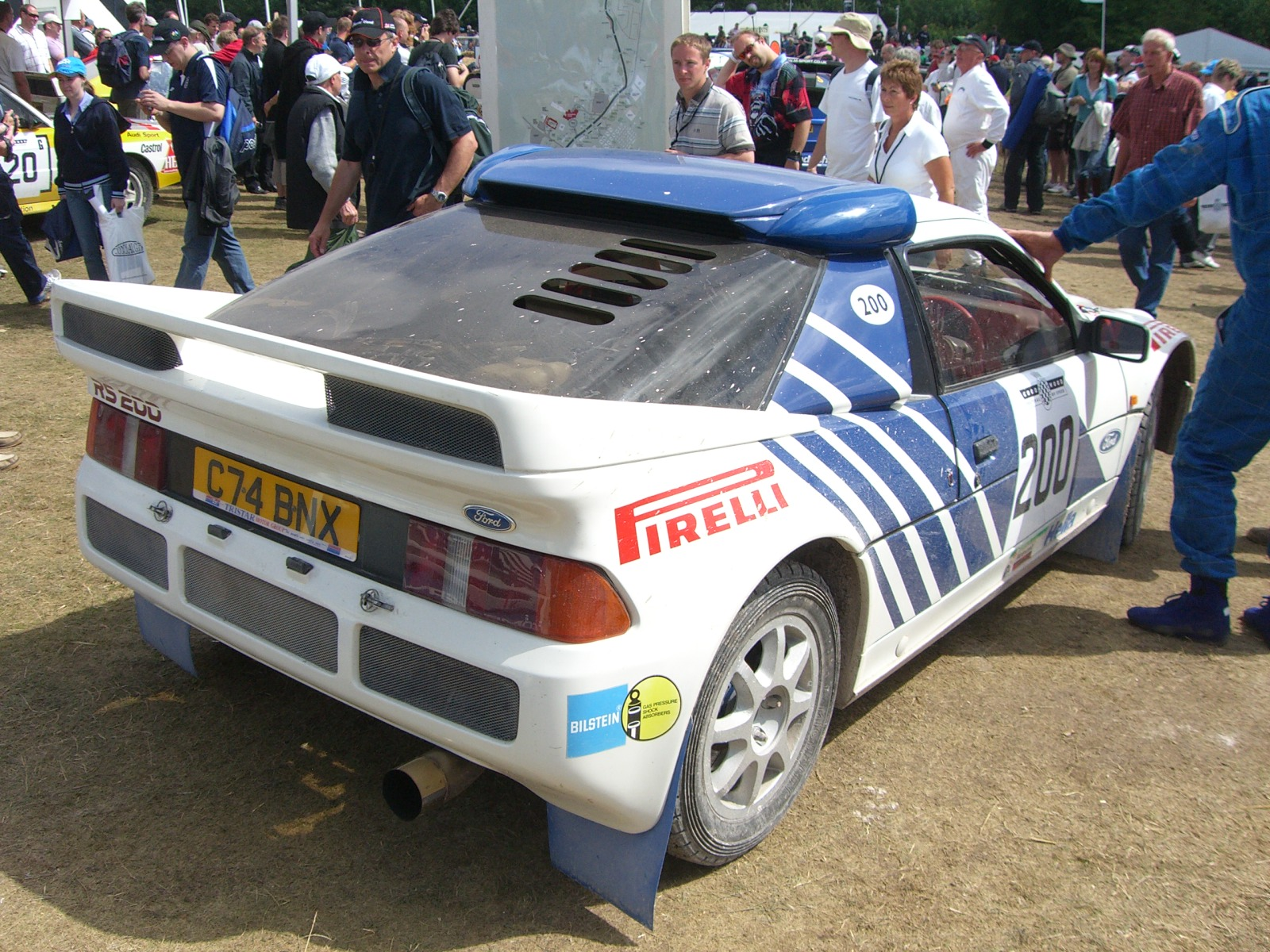 1986 Ford RS200 at 2006 FOS.